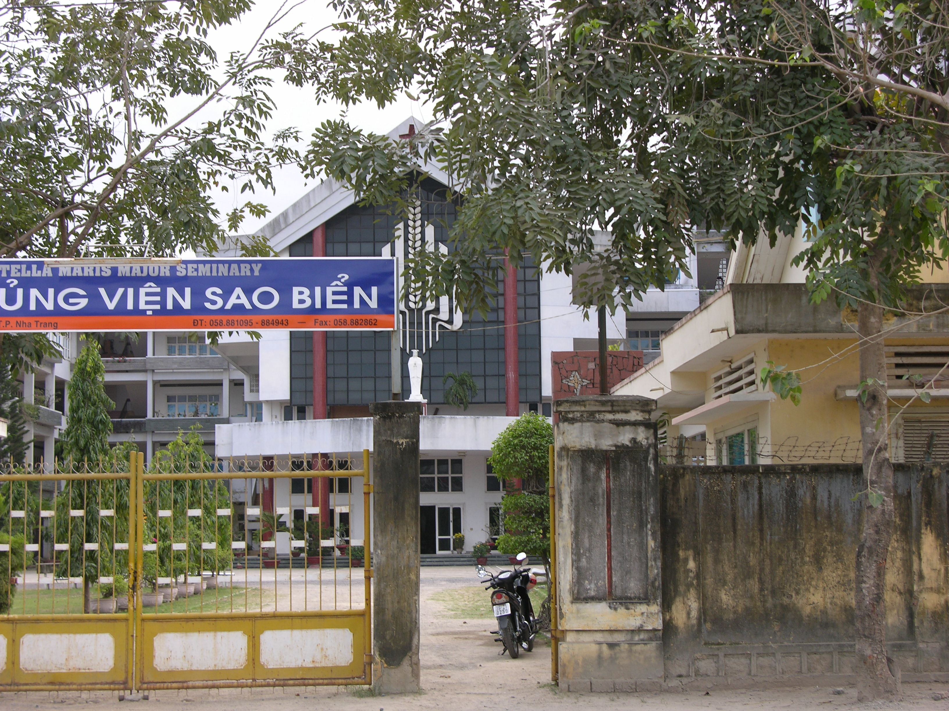 Sao Bien Seminary in Nha Trang, Vietnam